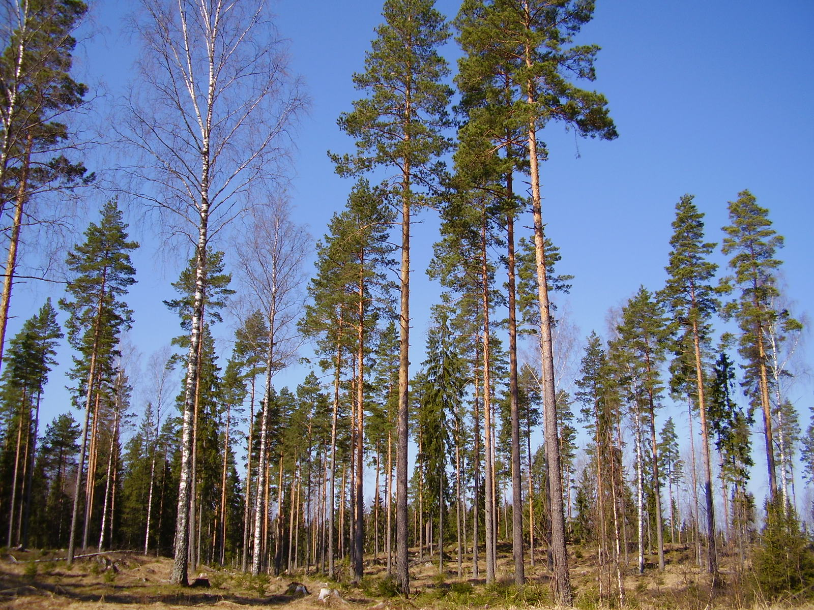 Seedtrees forest in Finland. Replace pine forest.